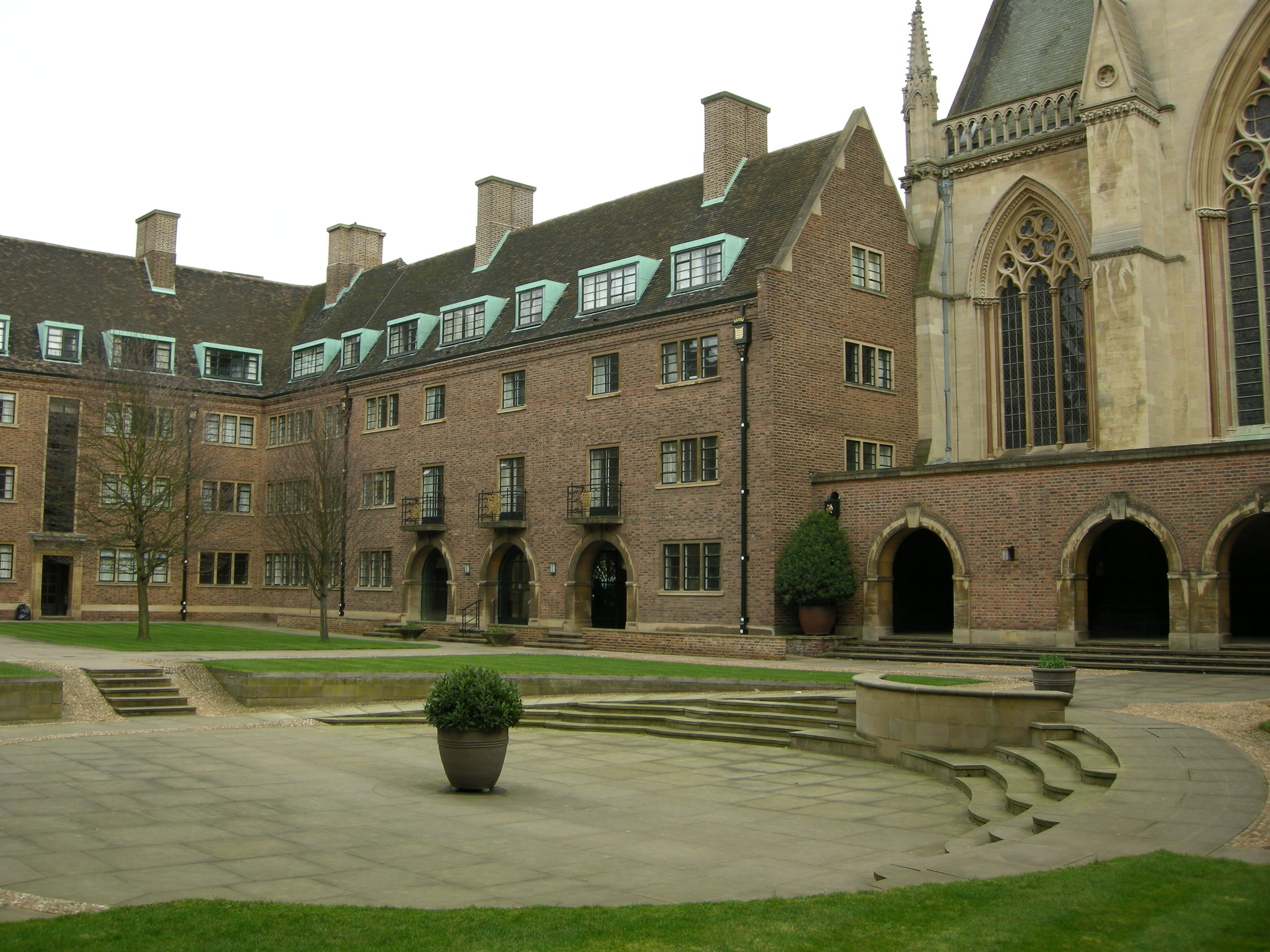 St John's College, Cambridge, chapel court